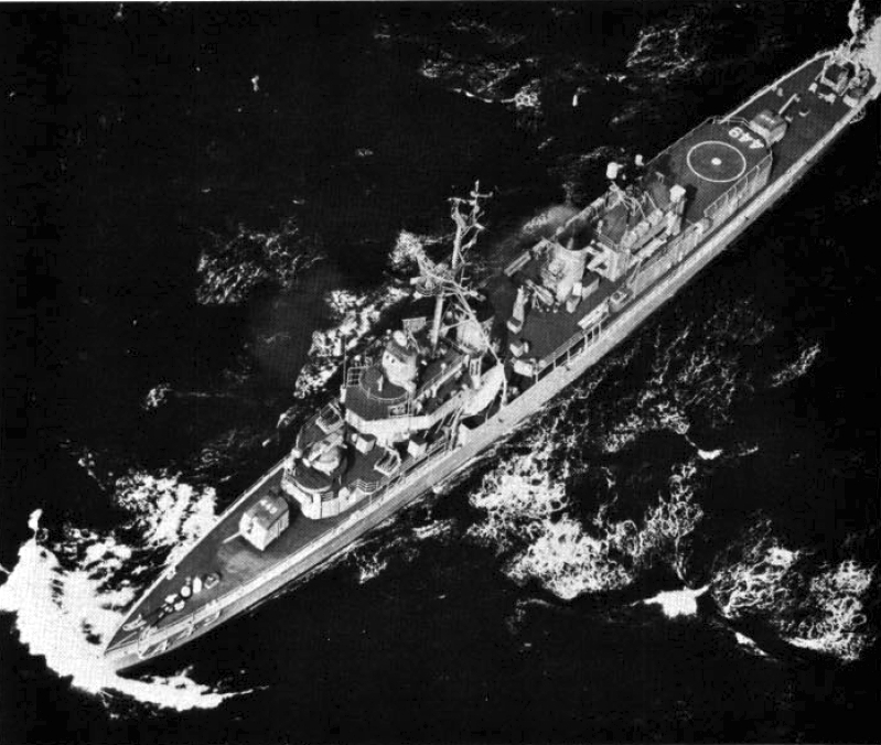 The U.S. Navy destroyer USS Nicholas (DD-449) after her FRAM II-modernization. Nicholas was modernized between December 1959 and July 1960.